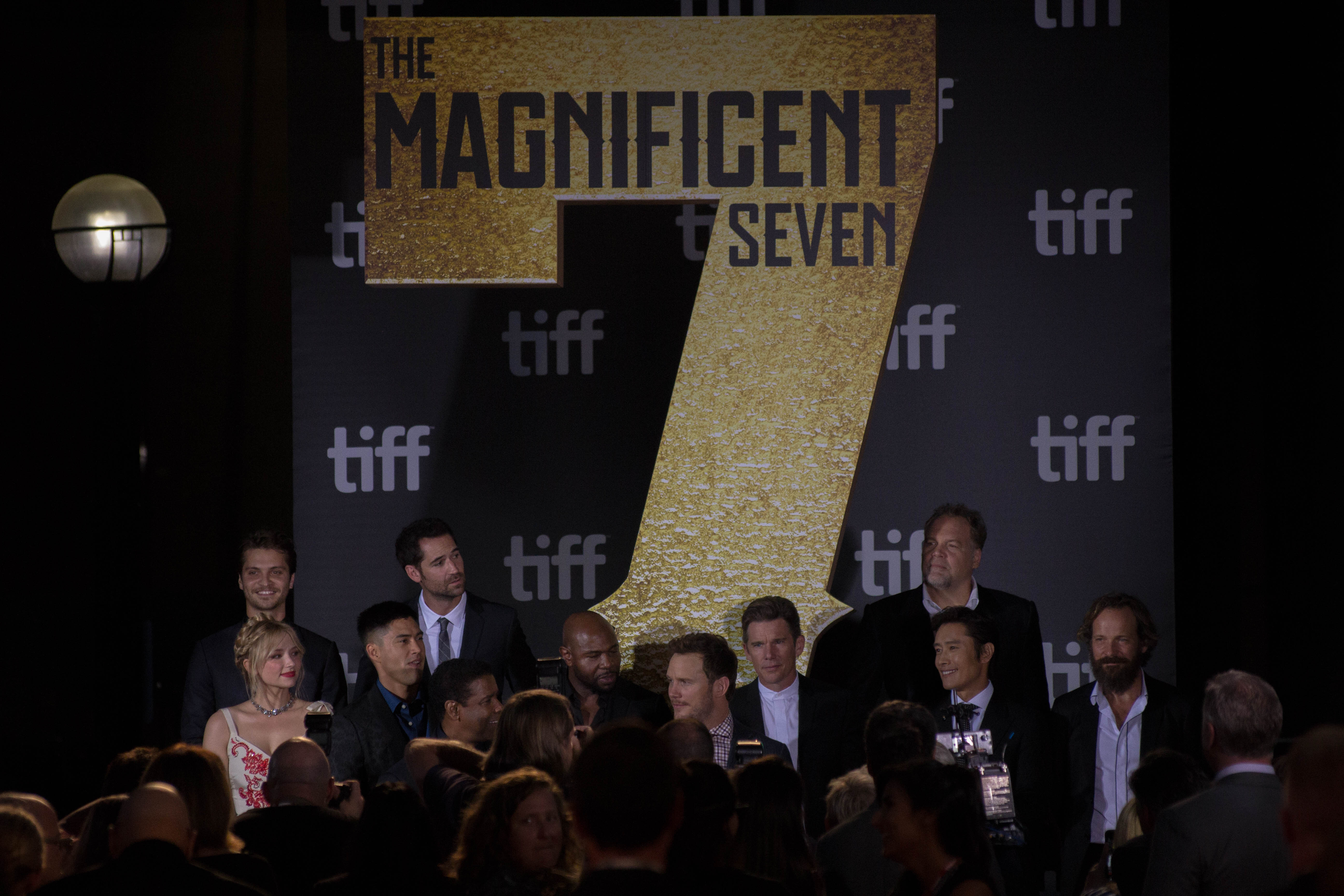 Cast of The Magnificent Seven